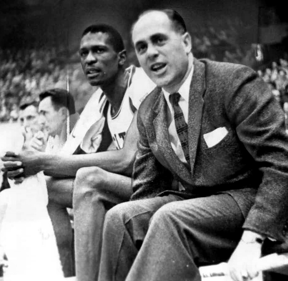 Boston Celtics center Bill Russell sitting on the bench next to head coach Red Auerbach.